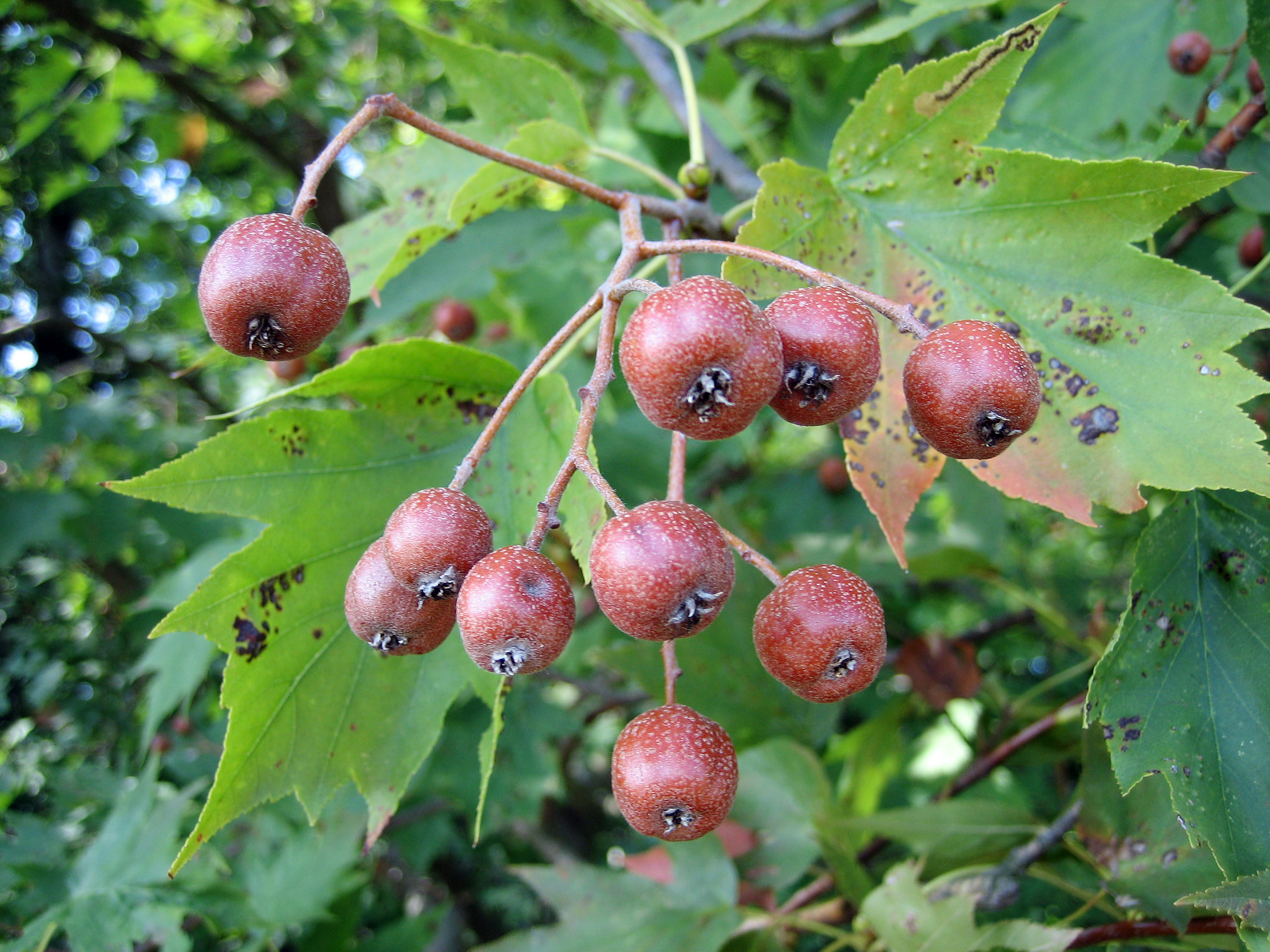 Wild Service Tree (Sorbus torminalis), photographed near Freiburg im Breisgau, Germany